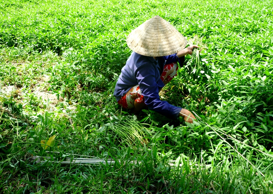 Picking Ipomoea aquatica.